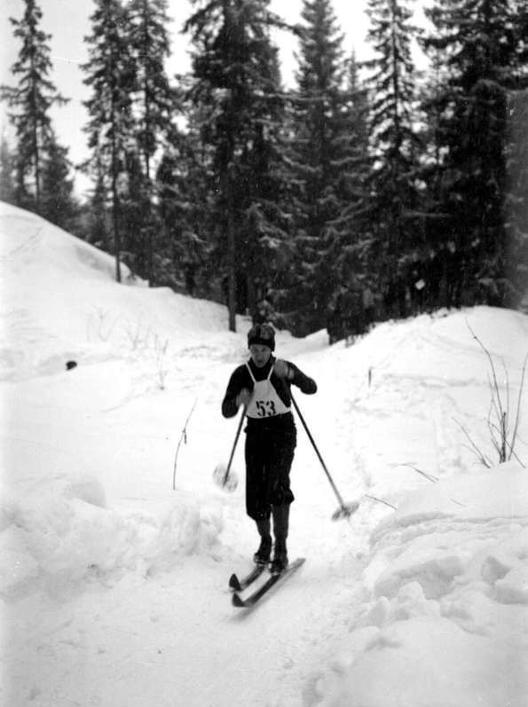 Norwegian skier Ole Hegge at the Norwegian championship in Lillehammer